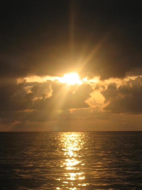 Black sea sunset